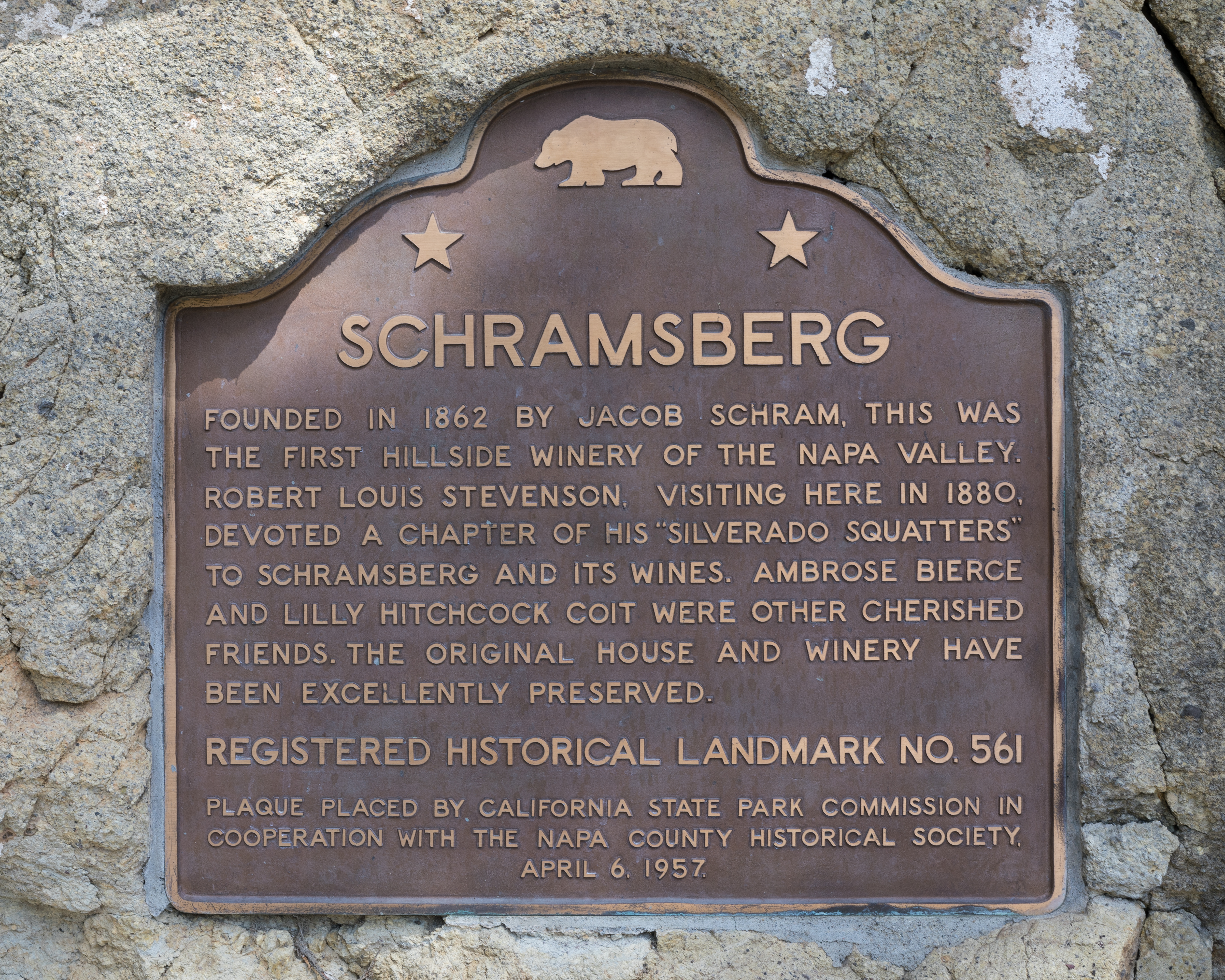 Schramsberg Vineyards, historical landmark sign